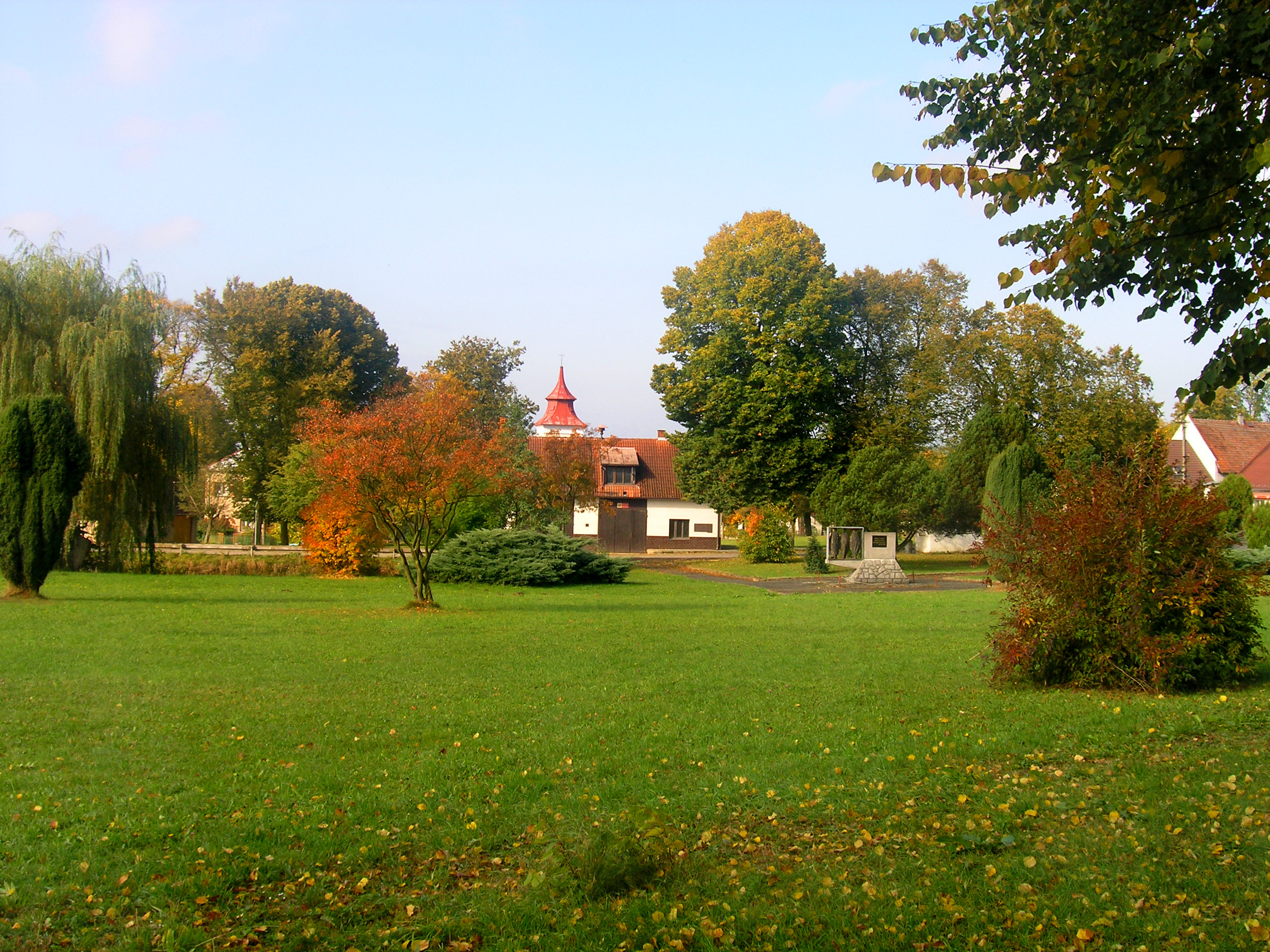 Kožlí village, Havlíčkův Brod District, Czech Republic